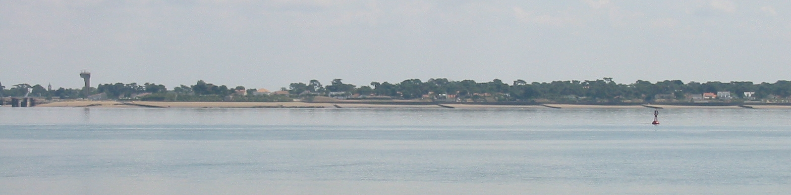 shoreline at Saint-Brevin-les-Pins (France), seen from Saint-Nazaire.